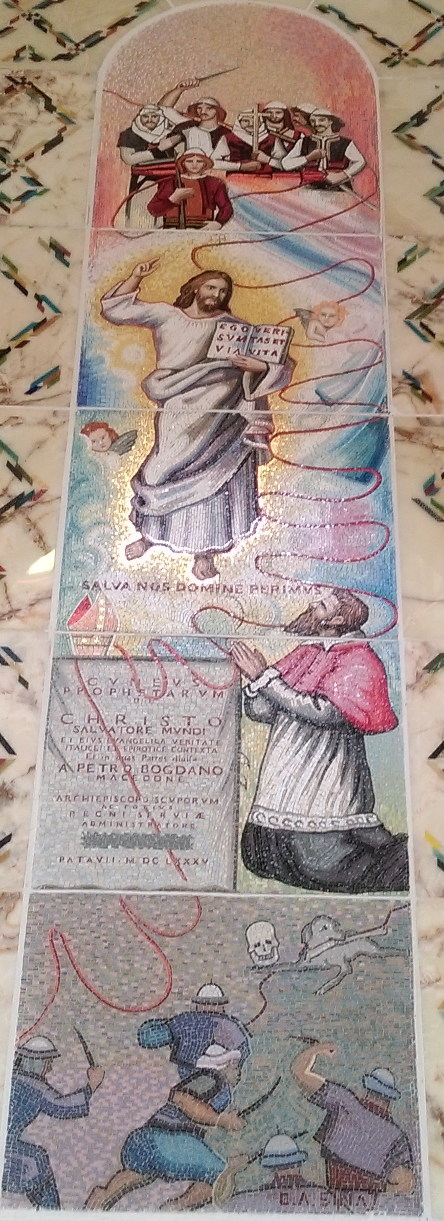 Stained glass depiction of Pjetër Bogdani at the Cathedral of Saint Mother Teresa in Prishtina